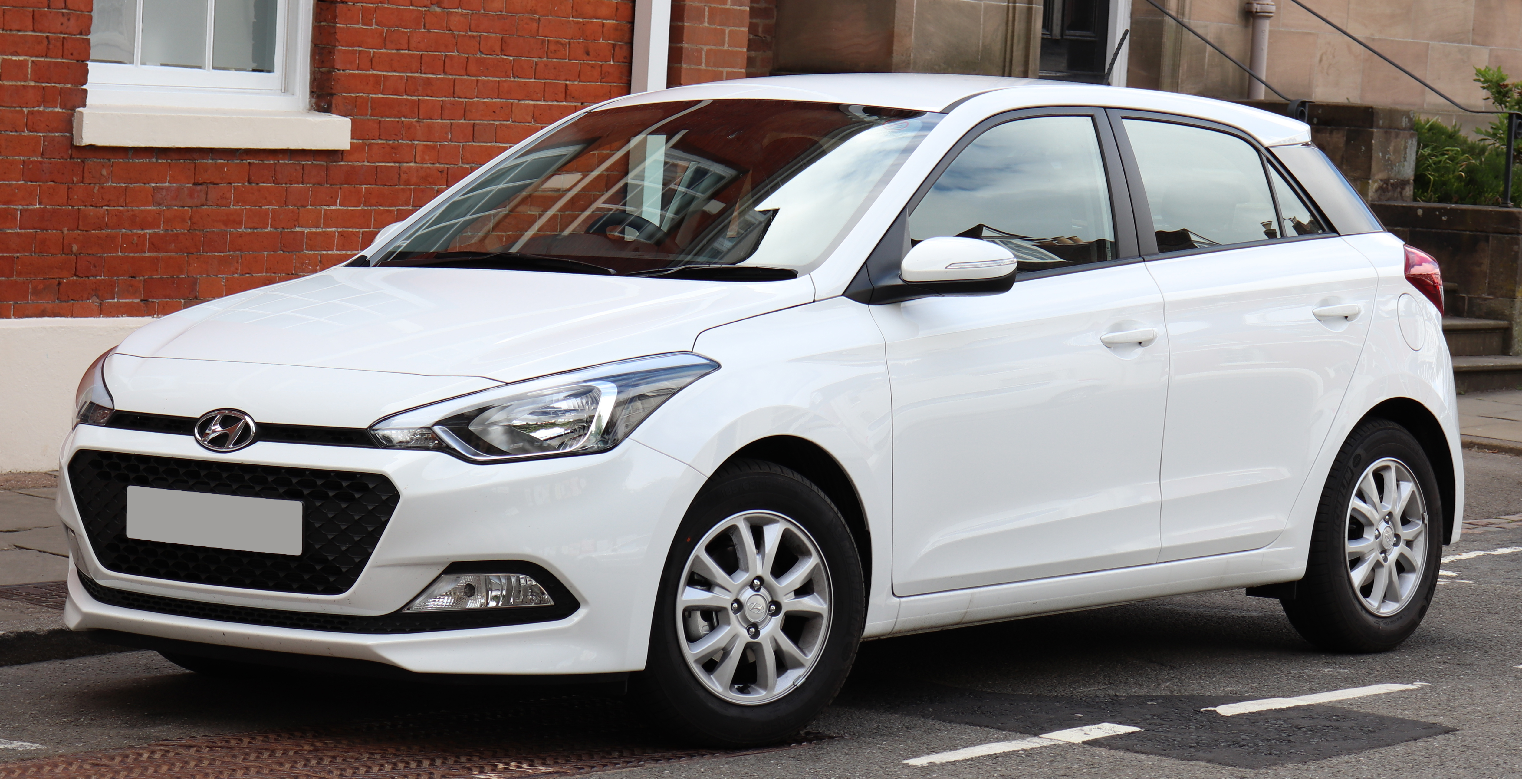 2018 Hyundai i20 SE MPi 1.2 Front Taken in Warwick